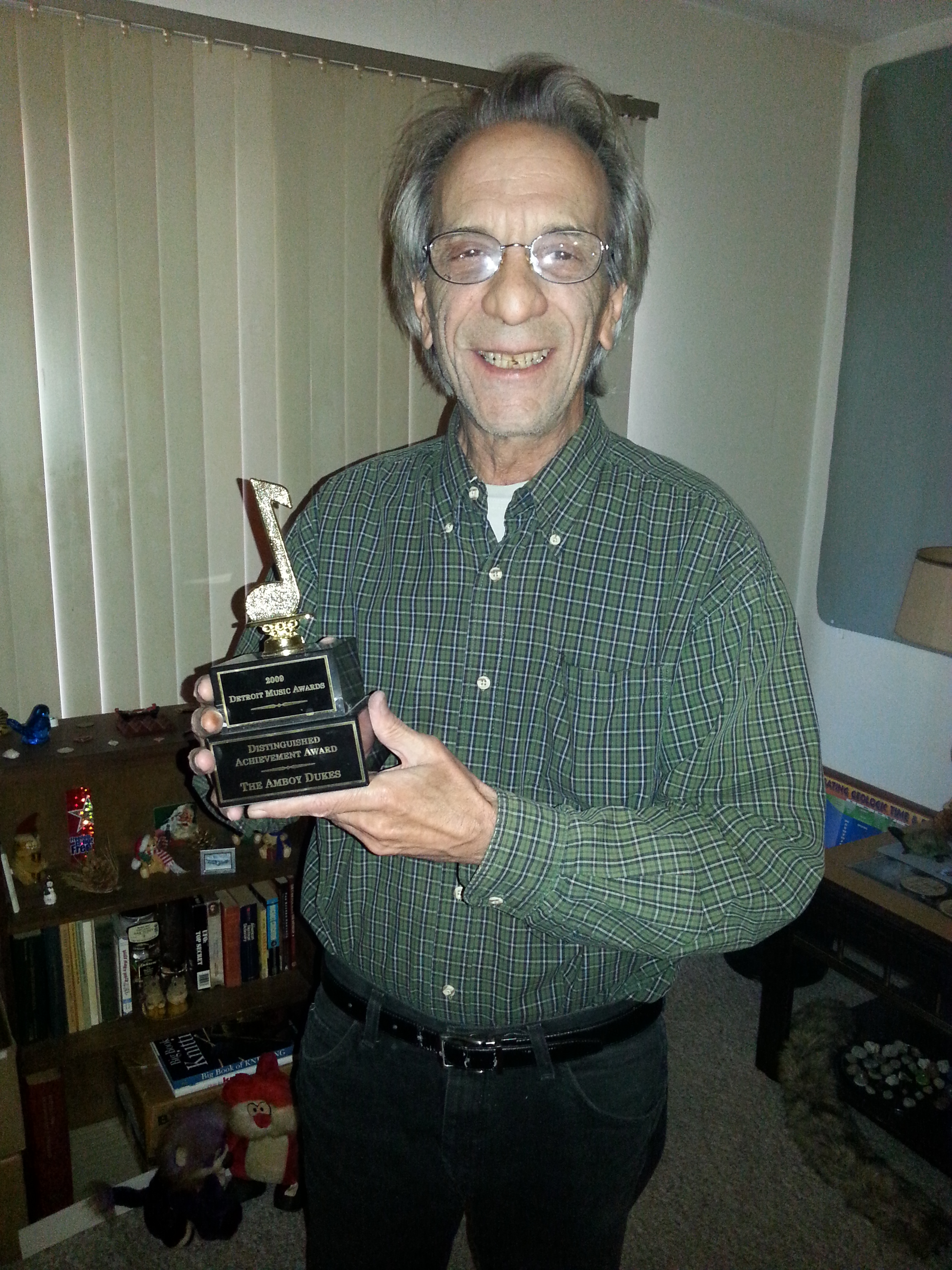 Rick Lober on November 8th, 2013